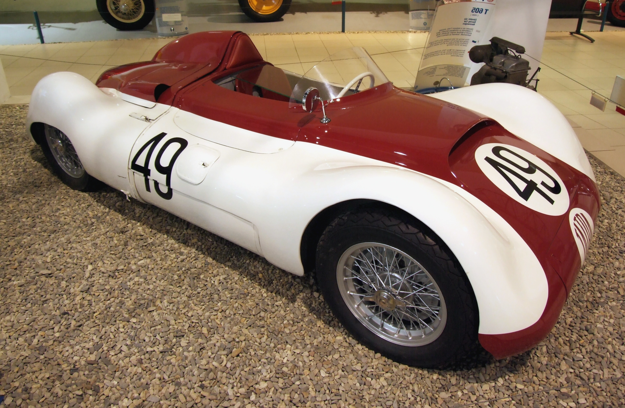 Tatra 605 in Technical Museum Tatra, Kopřivnice.